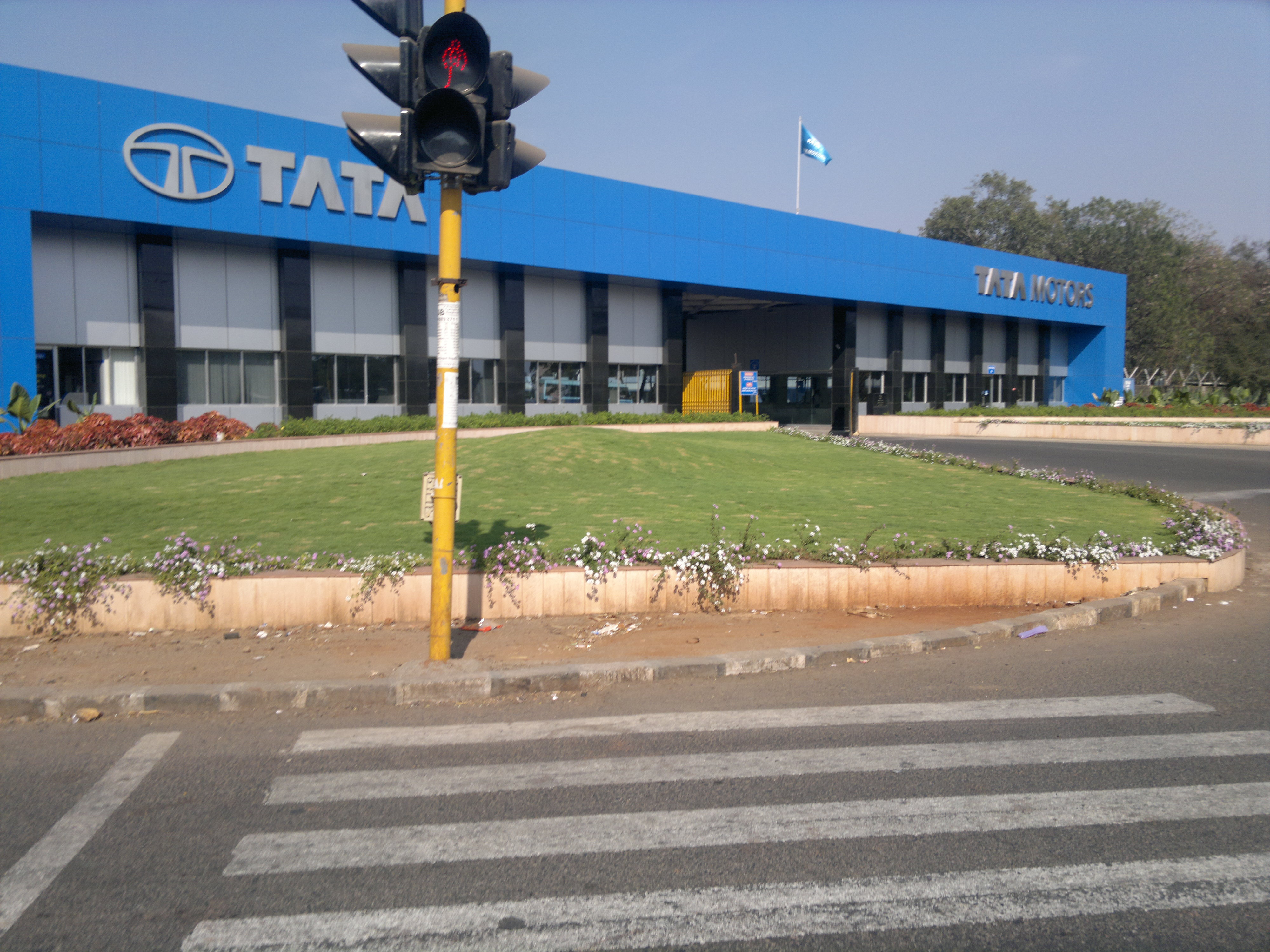 TATA Motors, Pune office and plant.